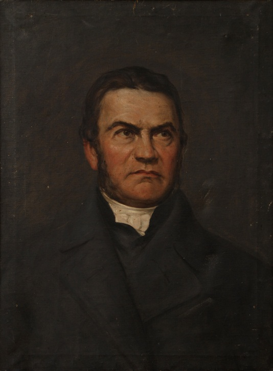 A portrait of Pavel Jozef Šafárik done by Karol Miloslav Lehotský (oil on canvas 67x50cm). Museum of vojvodinian Slovaks, inventory number 122.